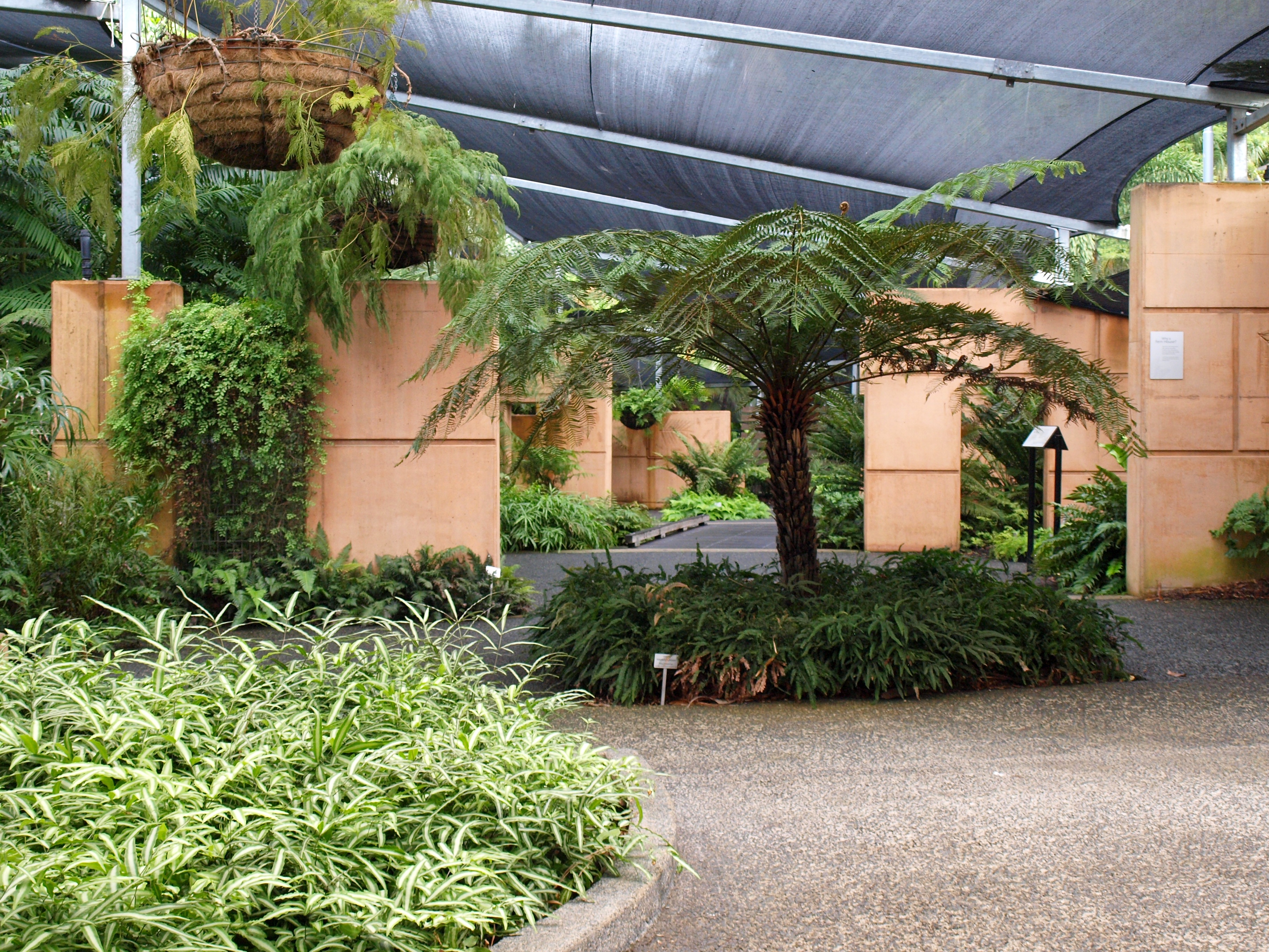 Brisbane Botanic Gardens, Mount Coot-tha